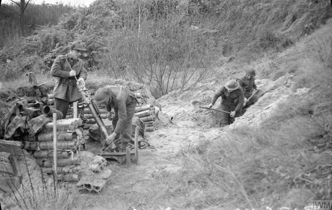 The British Army in North-west Europe 1944-45 3-inch mortar of 7th Royal Welsh Fusiliers, 53rd Division, 8 December 1944.